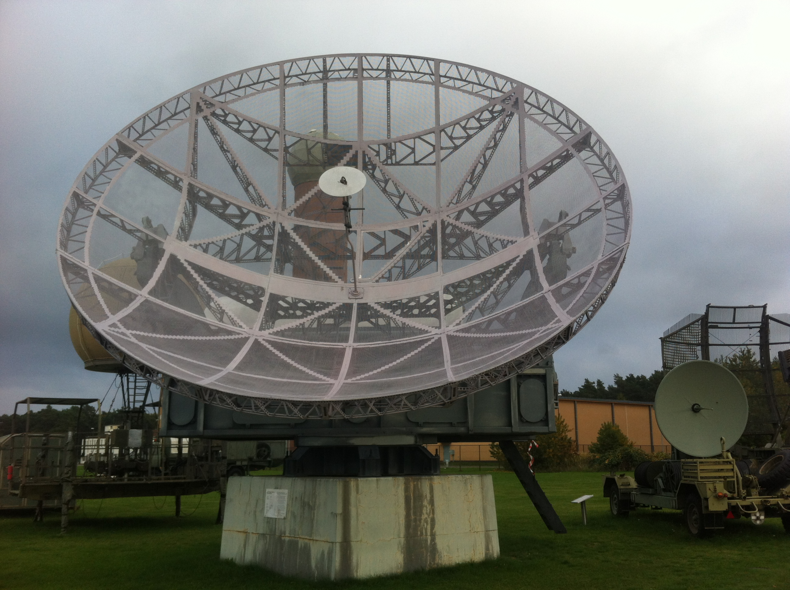 Würzburg-Riese at Gatow